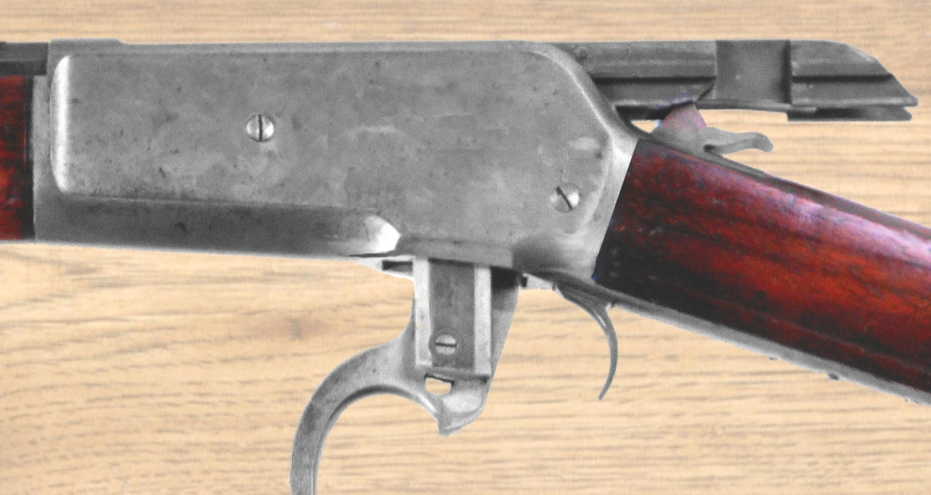 WinchM 86 receiver